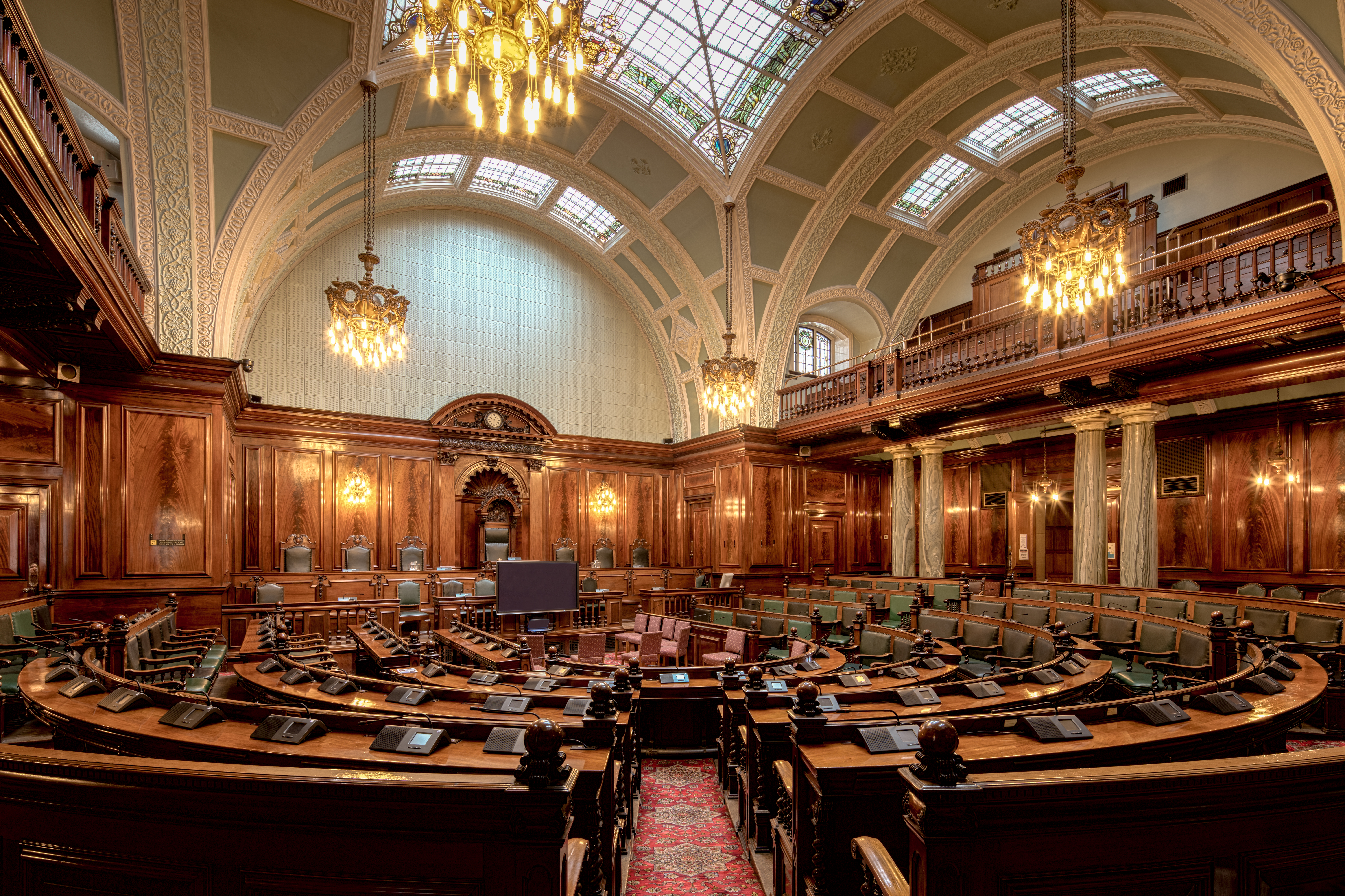 Bradford City Hall Wikidata has entry Q4954625 with data related to this item.